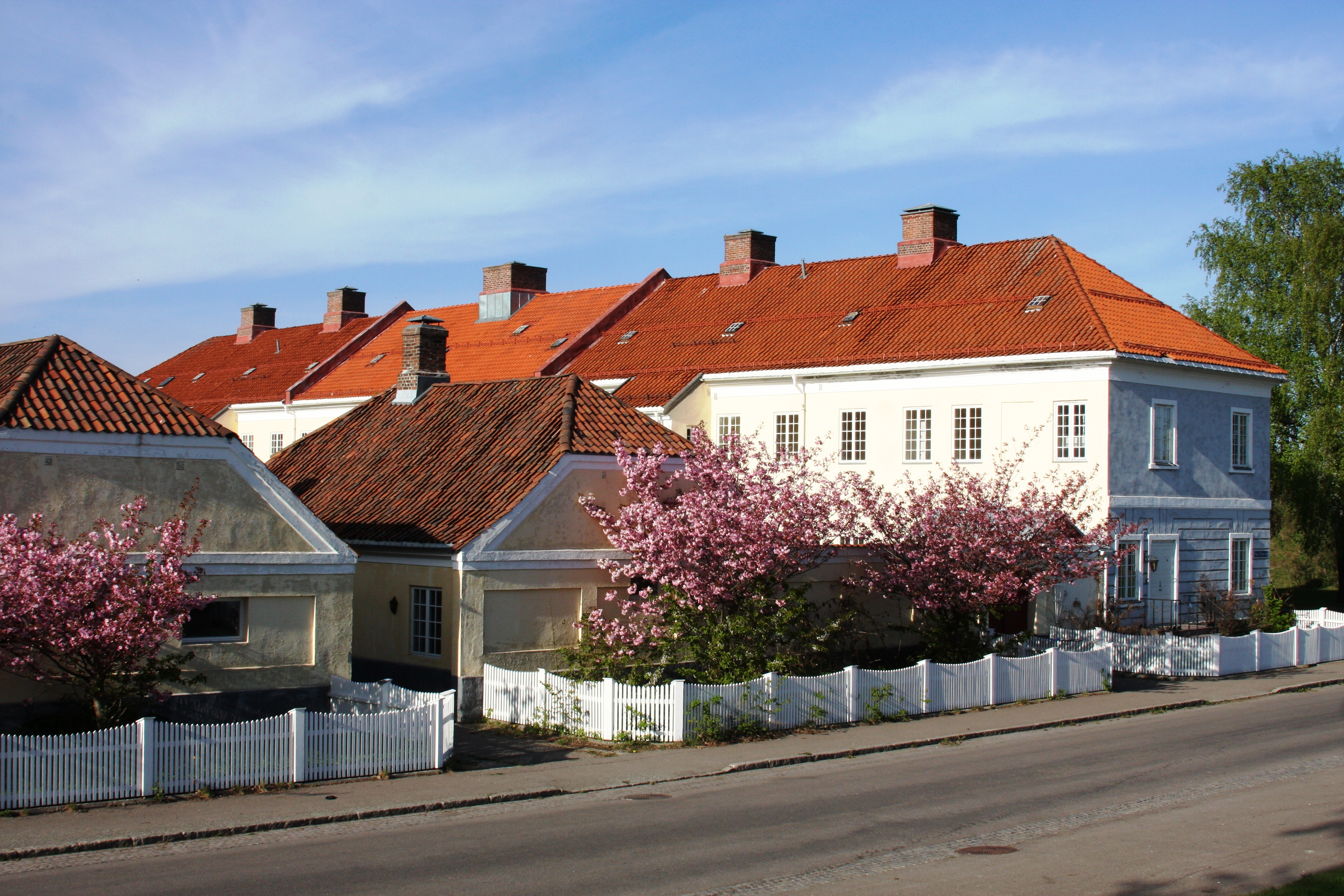 Karljohansvern military facility in Horten, Norway. Living barracks fron the 18th century.